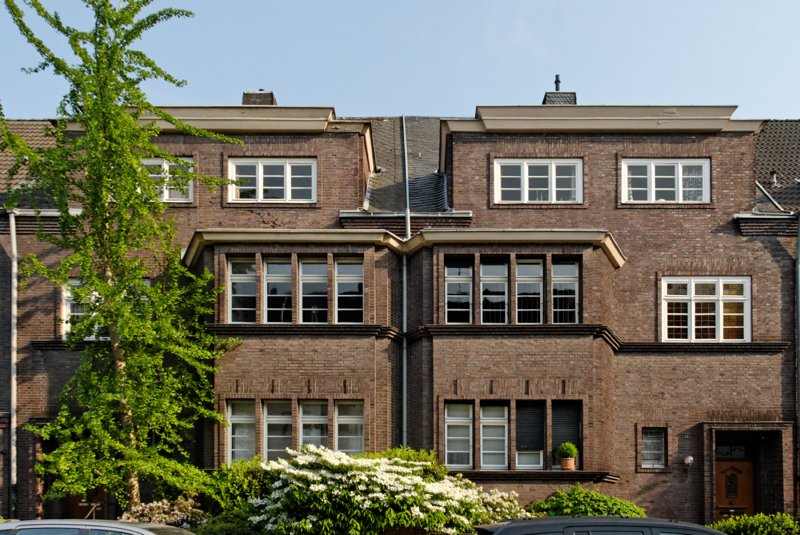 Houses Lützowstraße 21 and 23 in Düsseldorf-Golzheim, Germany This is a photograph of an architectural monument.